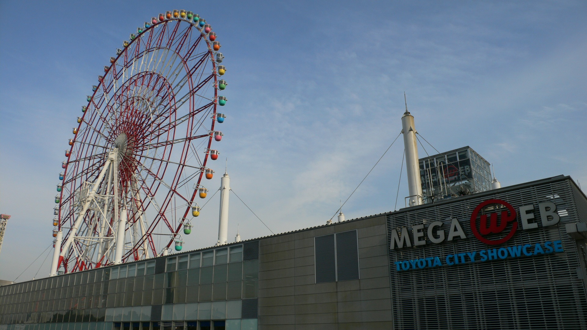 MEGAWEB (Showroom of Toyota)